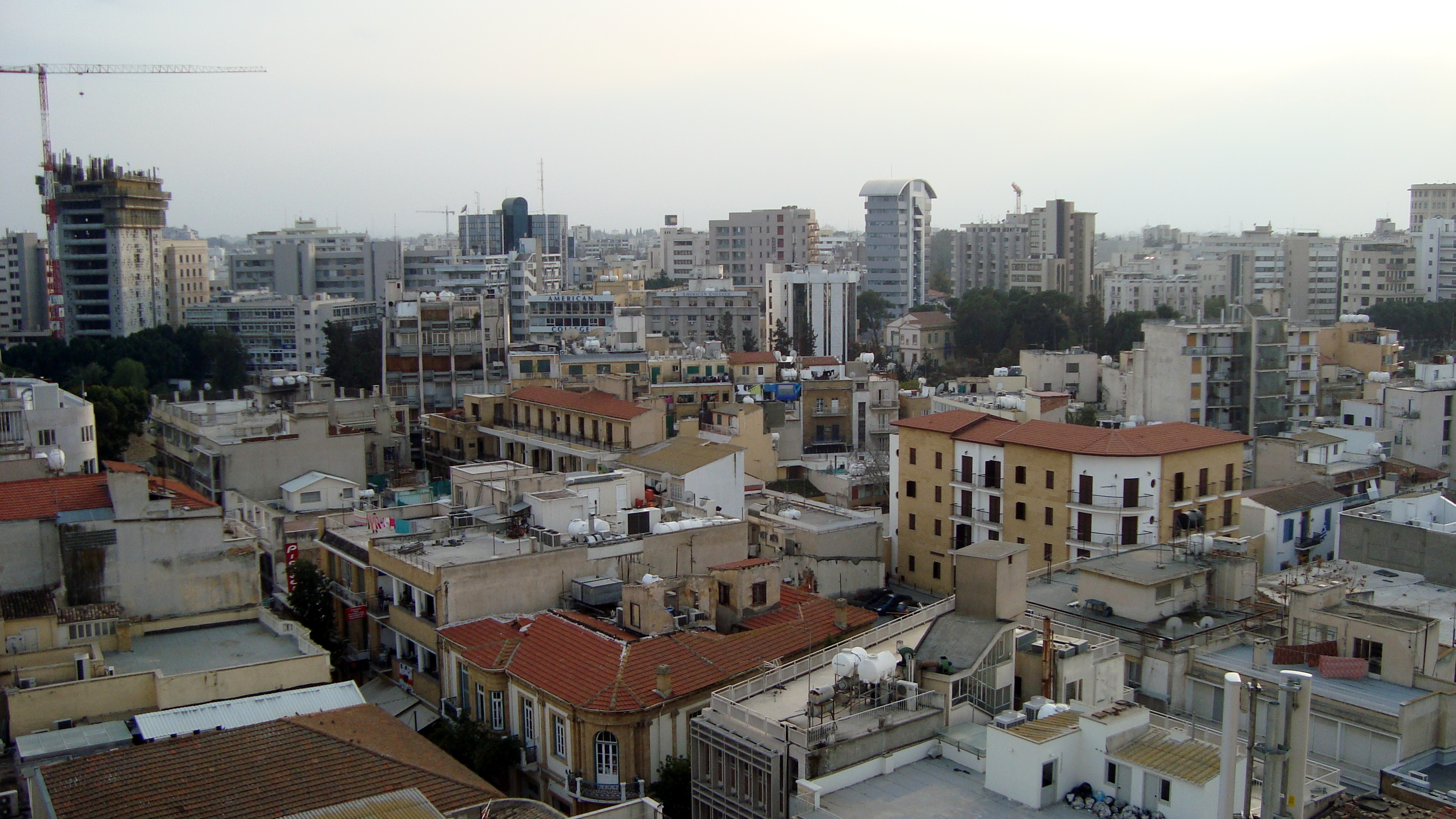 Nicosia view in the evening from Shacolas Tower